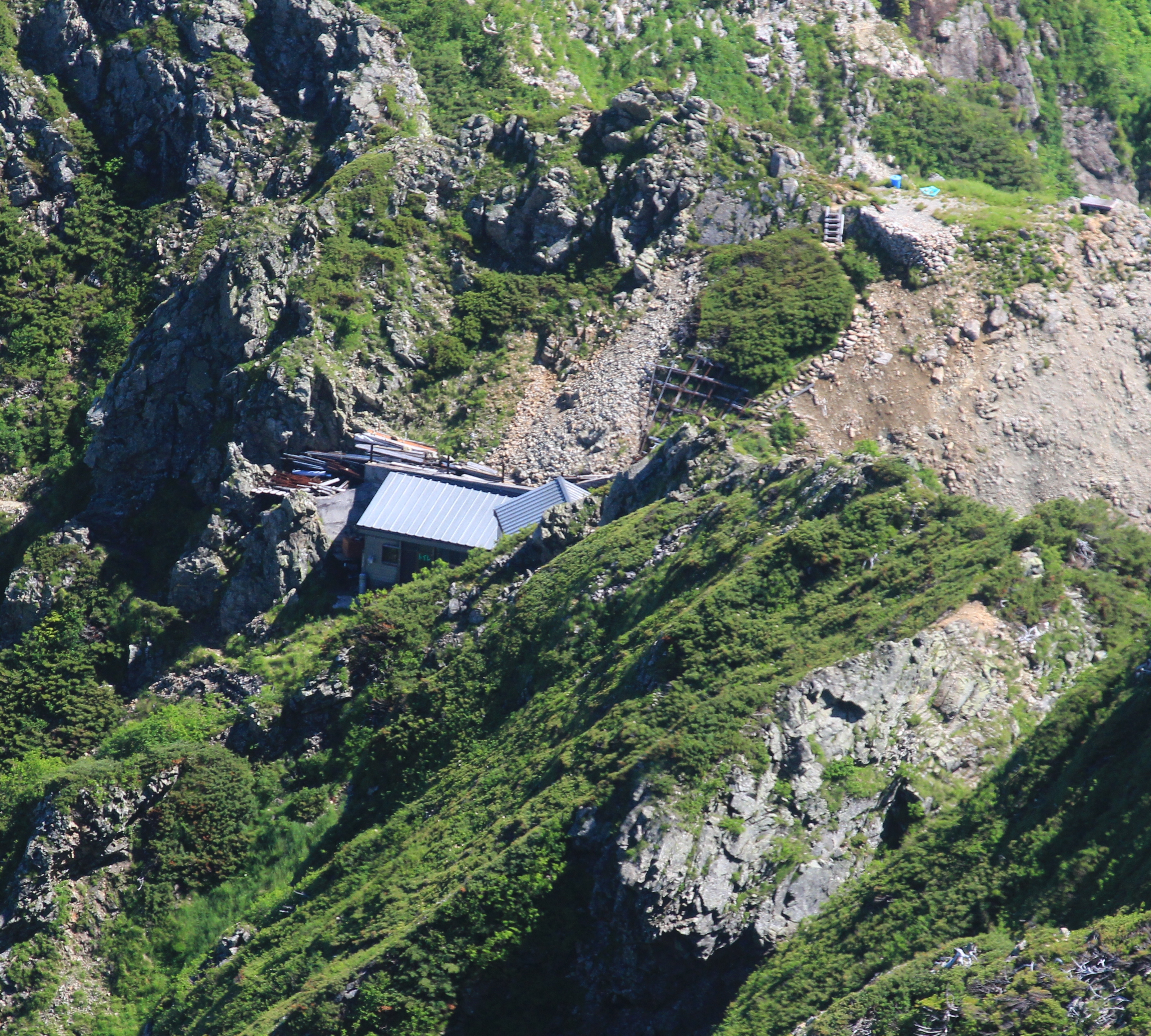 Kirretogoya seen from Mount Kashimayari in Ushirotateyama Mountains, Japan.